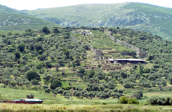 David Hill, 2003